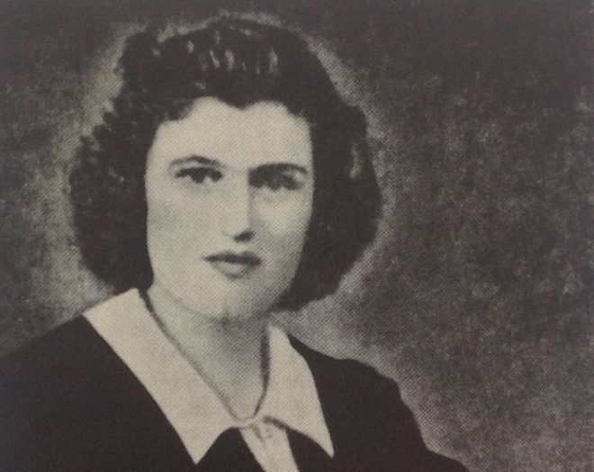 Greek Resistance fighter Diamanto Koumbaki (1926-1944), member of the United Panhellenic Organization of Youth (EPON); executed by the Germans on August 17, 1944.